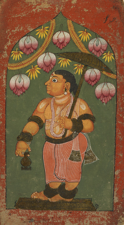 Vishnu as Vamana (dwarf-avatar) early 18th century Opaque watercolor, gold foil, and paper applique on cotton H: 21.7 W: 13.0 cm Possibly Tirupati, India Purchase S1996.61